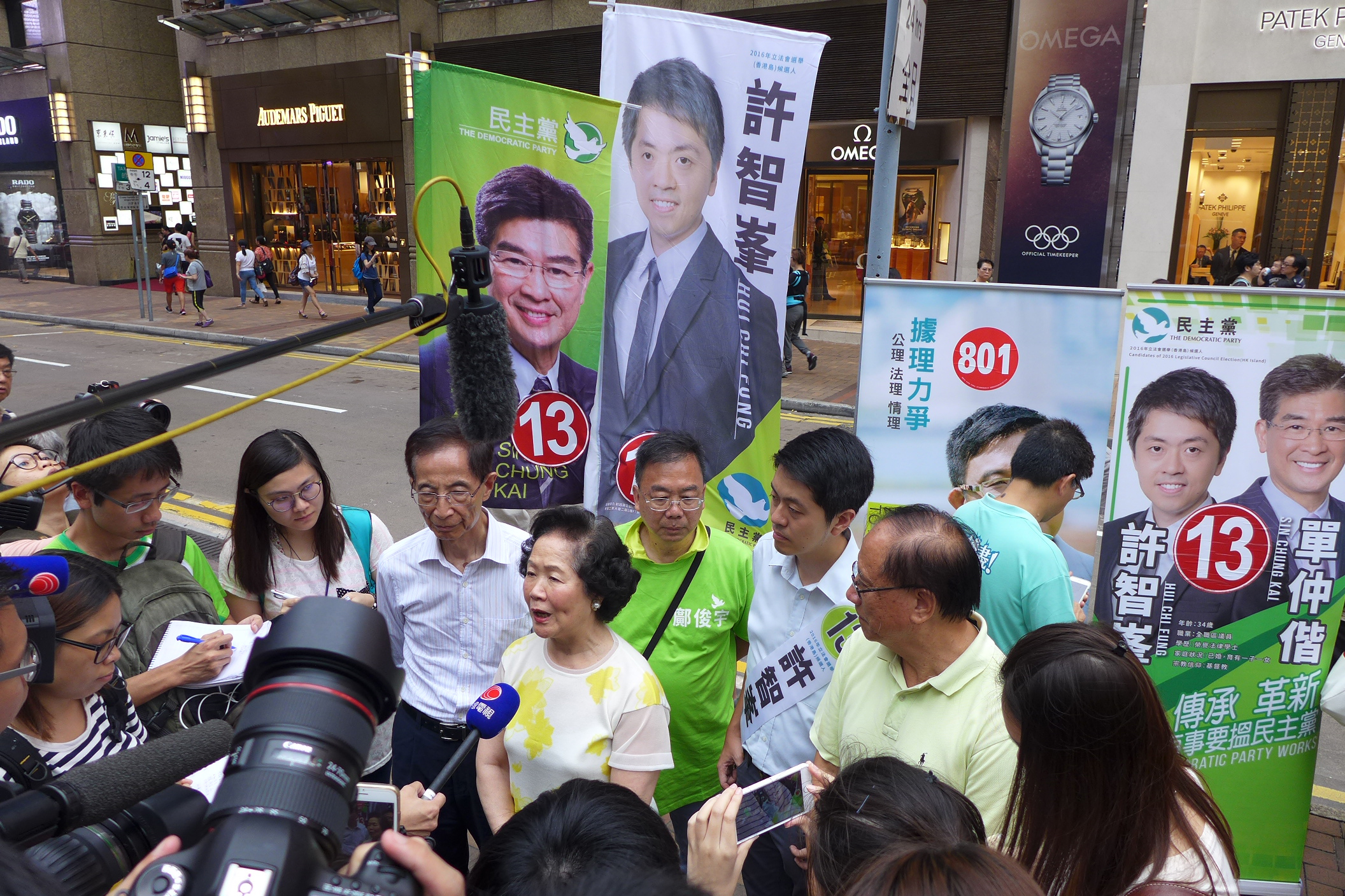 2016 Hong Kong legislative election, The Democratic Party Press conference in Times Square